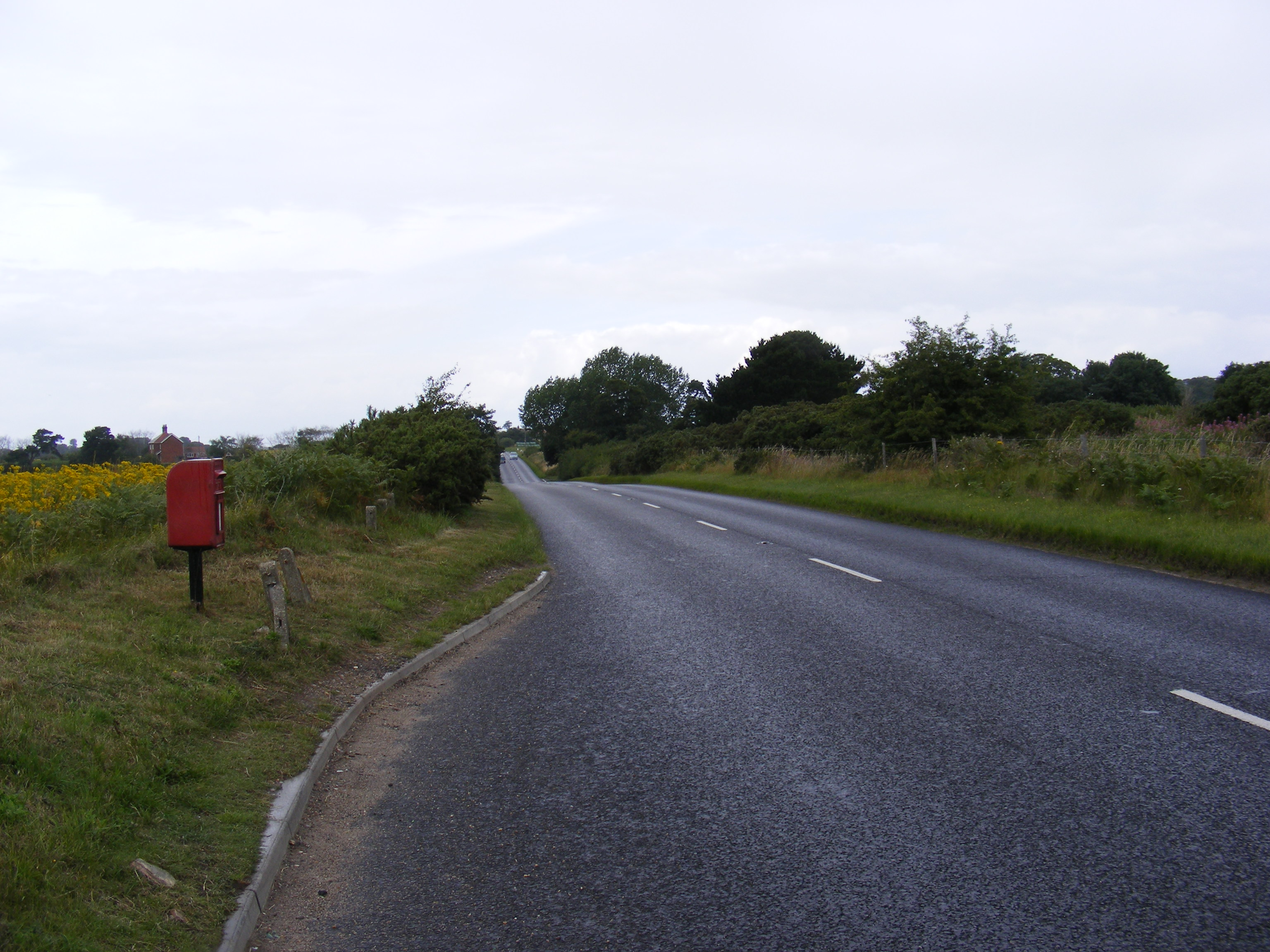 A1094 Aldeburgh Road & Hazelwood Hall Postbox Postbox No.IP17 4644 Looking towards Friston